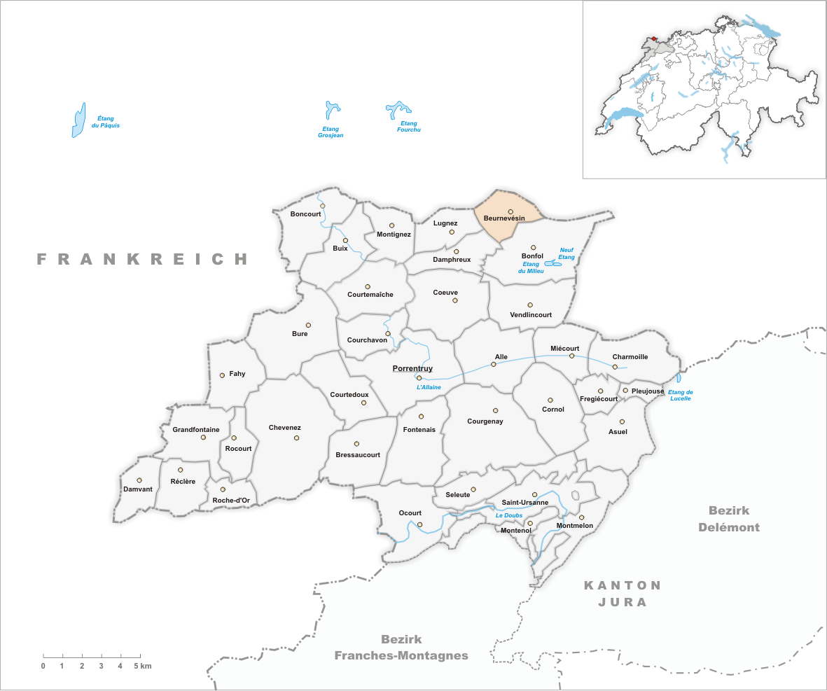 Municipality Beurnevésin Artist: Tschubby